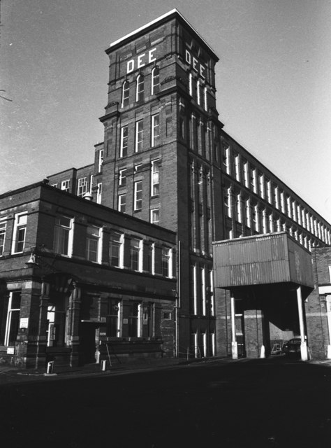 An image of Dee Mill in Shaw and Crompton. Image taken 6 December, 1980, by Chris Allen, who allows use of the image under the Creative Commons licencing agreement.